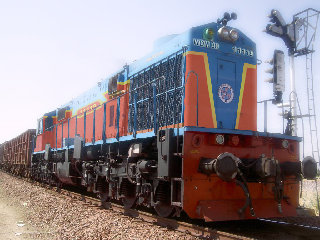 WDM-3D diesel loco of Gooty (11119)